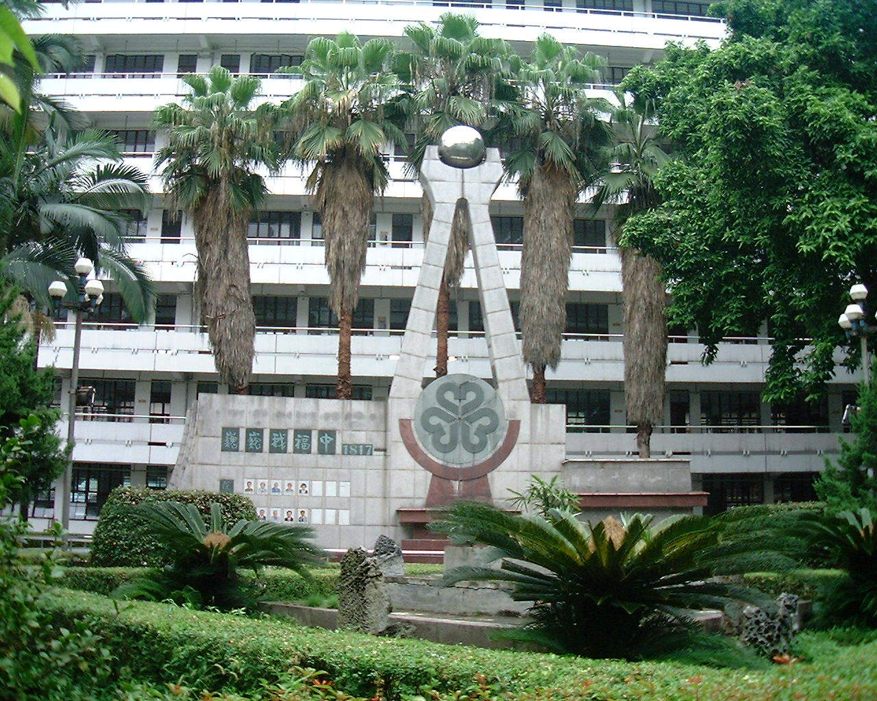 Fuzhou No.1 Middle School old campus